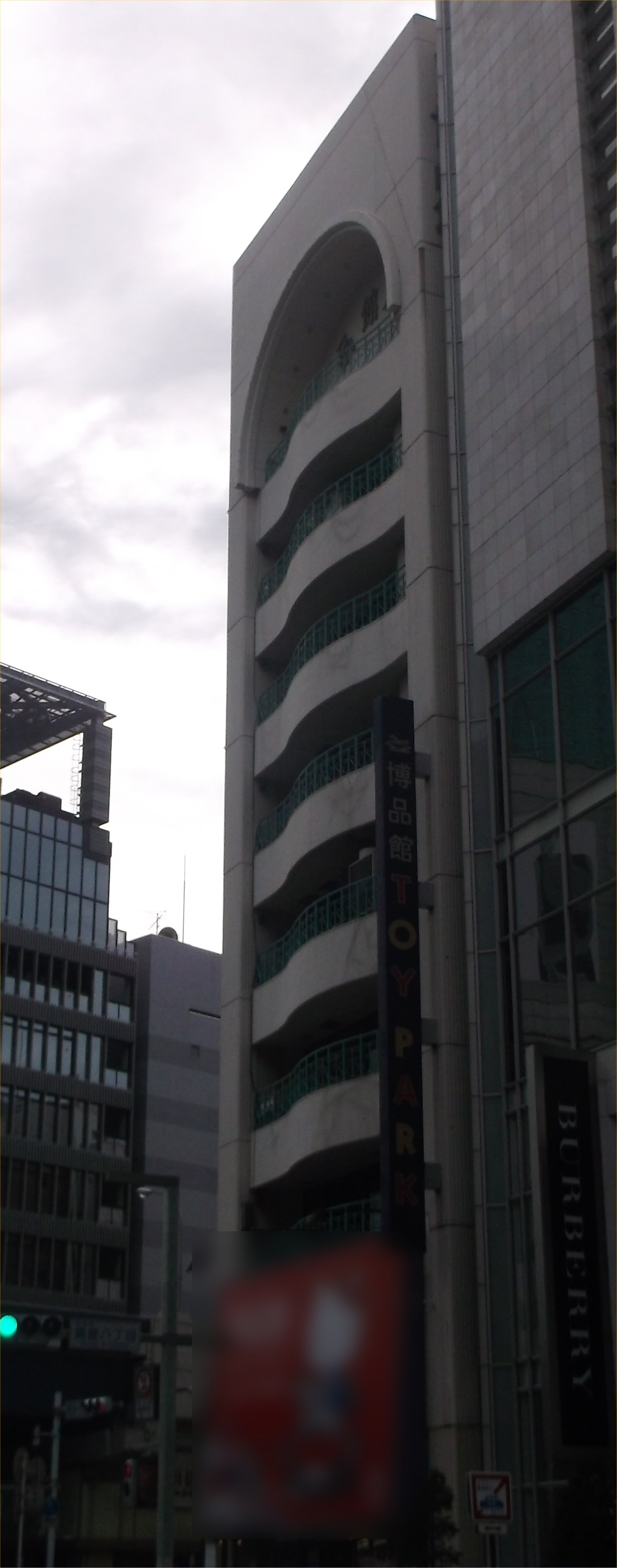 A photo of "Hakuhinkan TOY PARK Ginza head store",Ginza,Chuo-ku,Tokyo,Japan.